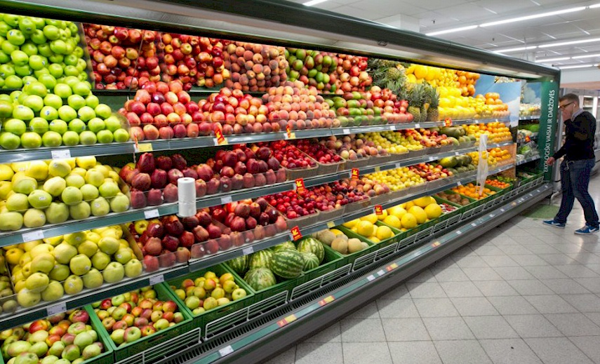 Picture of one of the biggest Maxima shopping centre.